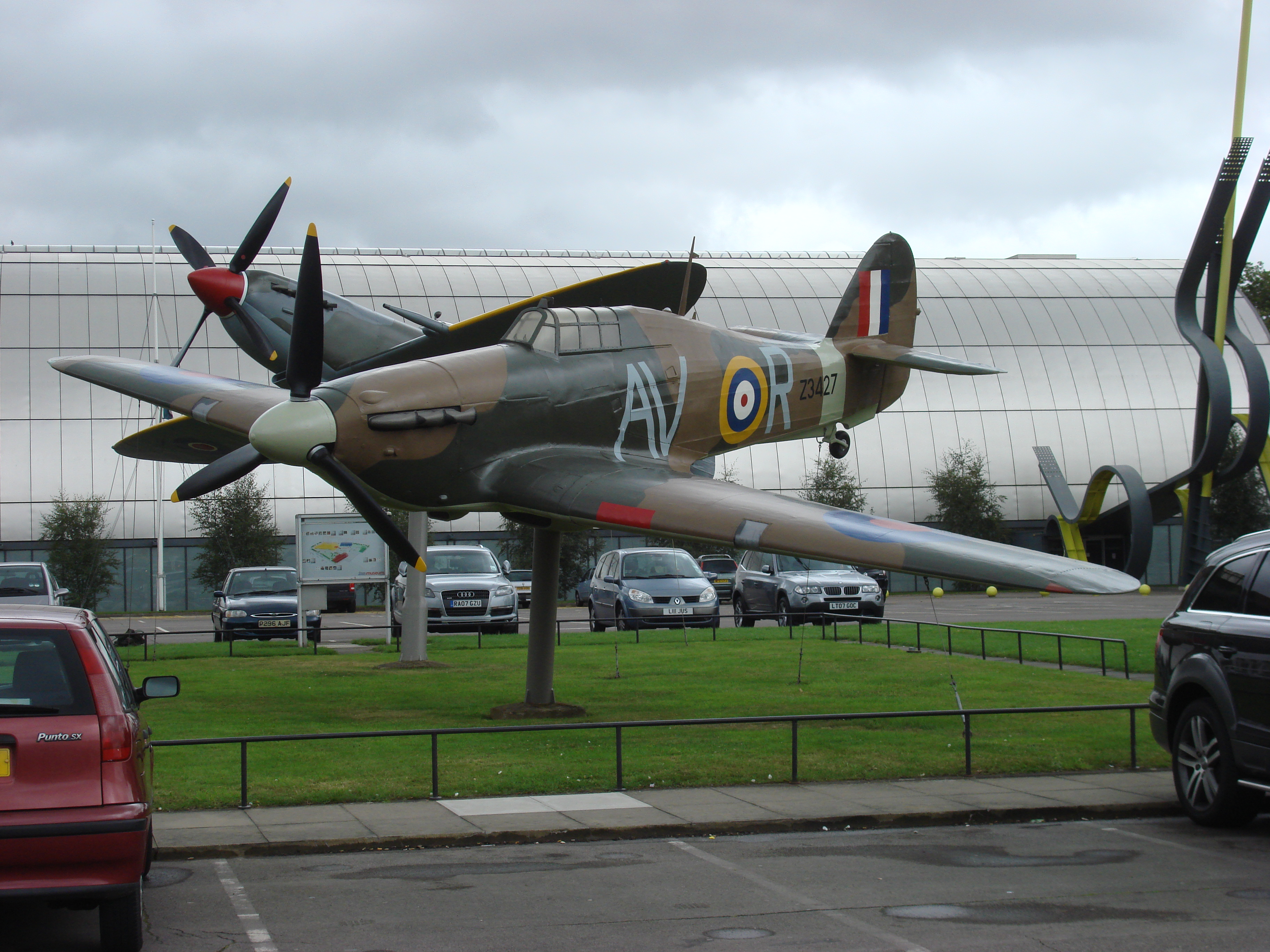 Hurricane replica, RAF Museum, London A fibreglass replica of the Hawker Hurricane Mk II with the markings of No 121 (Eagle) Squadron.